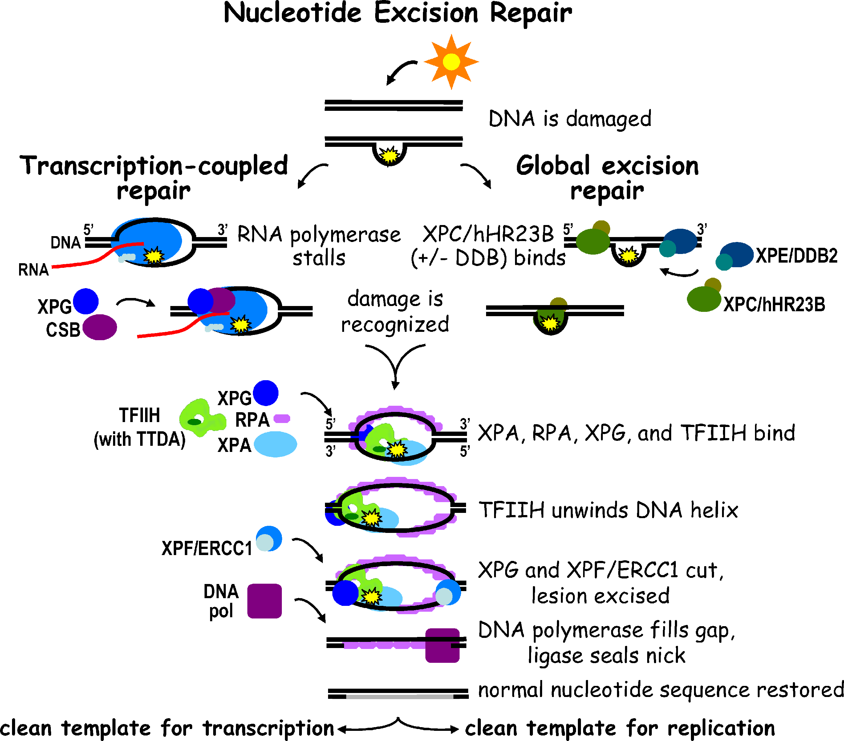 "When DNA is damaged by sunlight, the damage is recognized differently depending on whether the DNA is transcriptionally active (transcription-coupled repair) or not (global excision repair). After the initial recognition step, the damage is repaired in a similar manner with the final outcome being the restoration of the normal nucleotide sequence. A more detailed description is provided in the text." (2006). "DNA Repair: Dynamic Defenders against Cancer and Aging". PLoS Biology 4 (6): e203. PMID 16752948. PMC: 1475692.